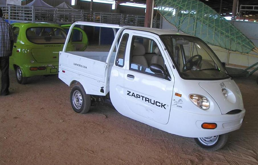 A Zap Xebra electric powered truck, photographed at the Maker Faire in Austin, Texas on October 20th 2007.